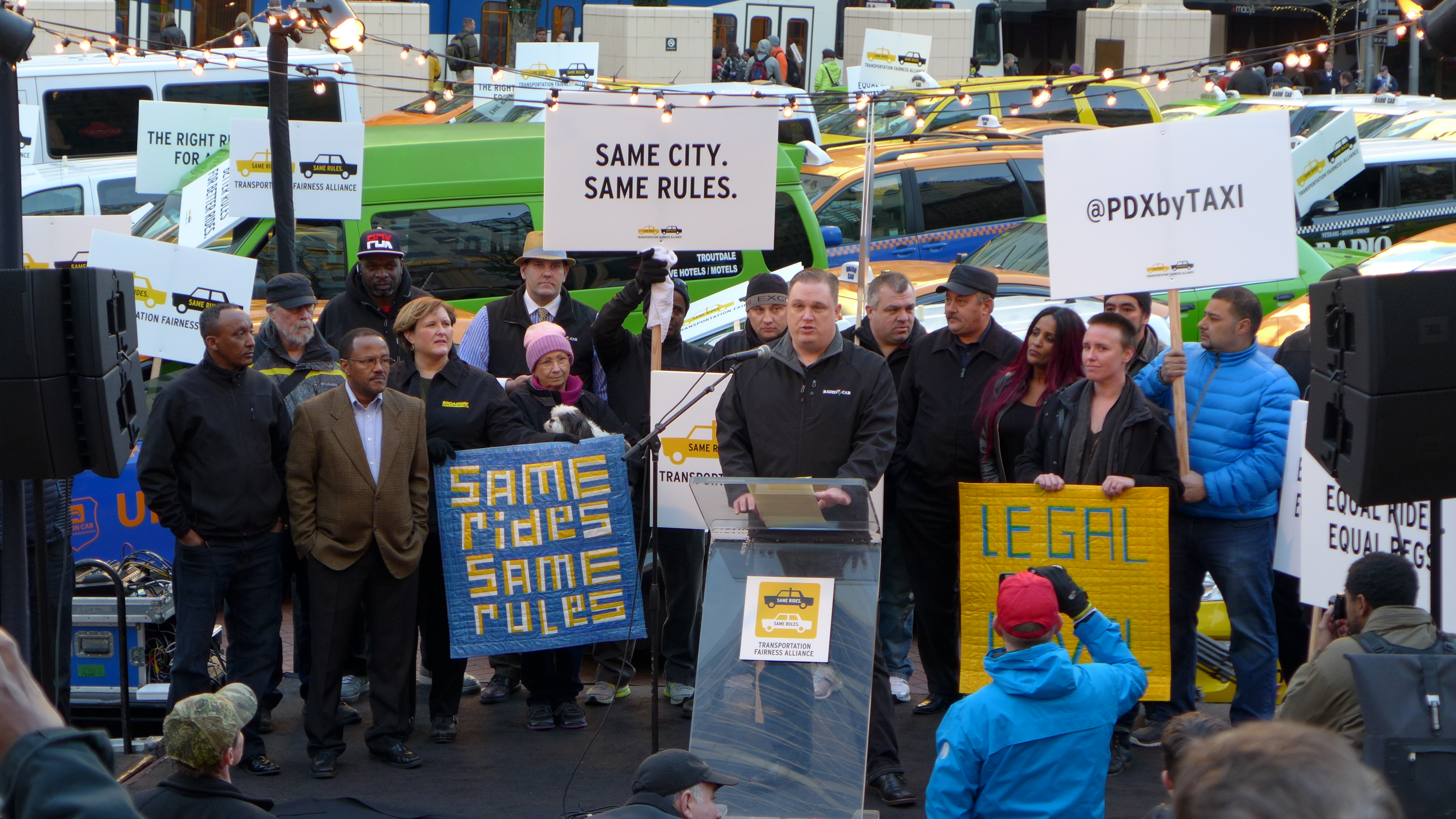 On January 13, 2015, around 70 of Portland's 460 Taxi cabs protested fair taxi laws by parking in Pioneer square. Organizers want city leaders to make ride-sharing companies play by the same rules as cabs and Town cars.